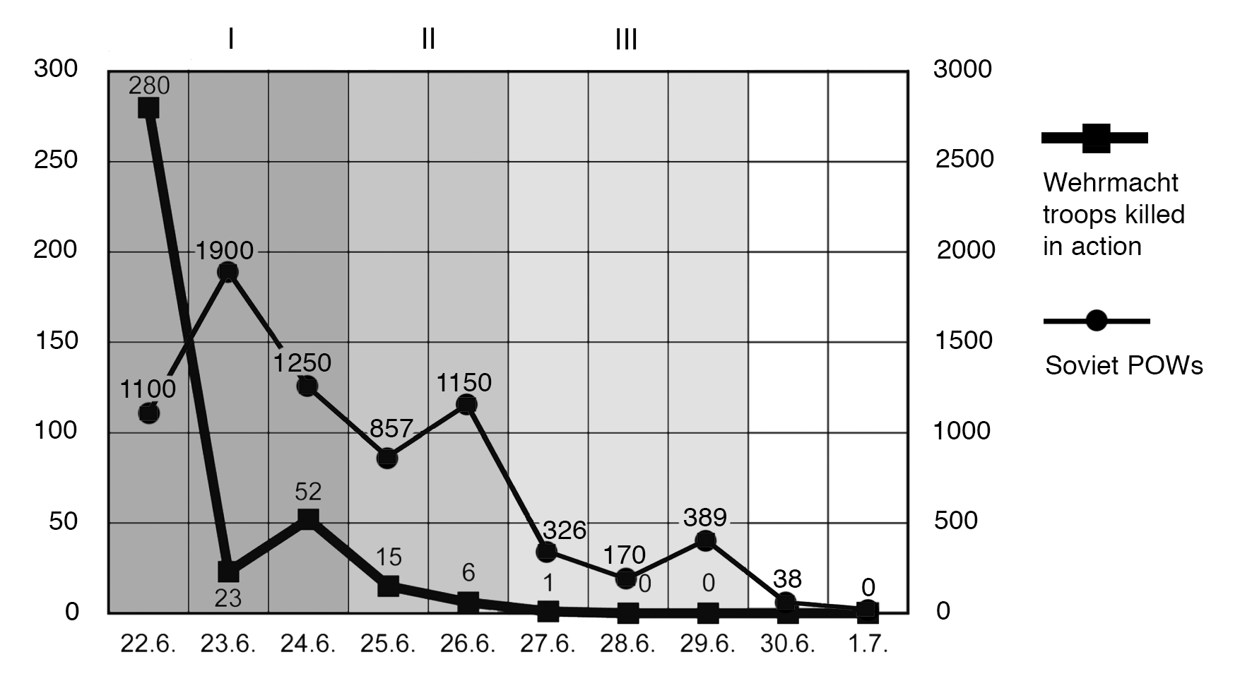 Development of German losses of men killed in action and Soviet losses of POWs in the battle for the Brest fortress in June 1941, based on primary sources as indicated in my publications. In the diagram about 52 German soldiers are missing. These died in the lazarets and the day they were wounded is unknown. In cases that day is known these are counted as losses of that day. On the basis of the known primary sources it was not always possible to establish the exact number of Soviet POWs for every day. For these reasons the diagram gives merely an orientation about the losses and, subsequently, about duration and intensity of the battle.